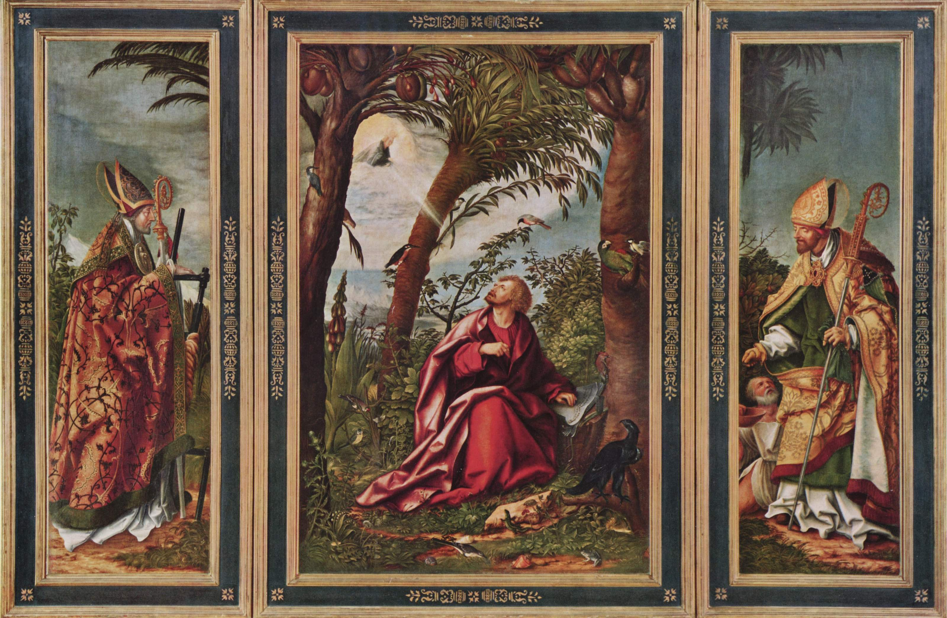 Left wing: St. Erasmus of FormiaeCenter panel: John the Evangelist on PatmosRight wing: St. Martin of Tours